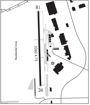 Airport diagram showing runway